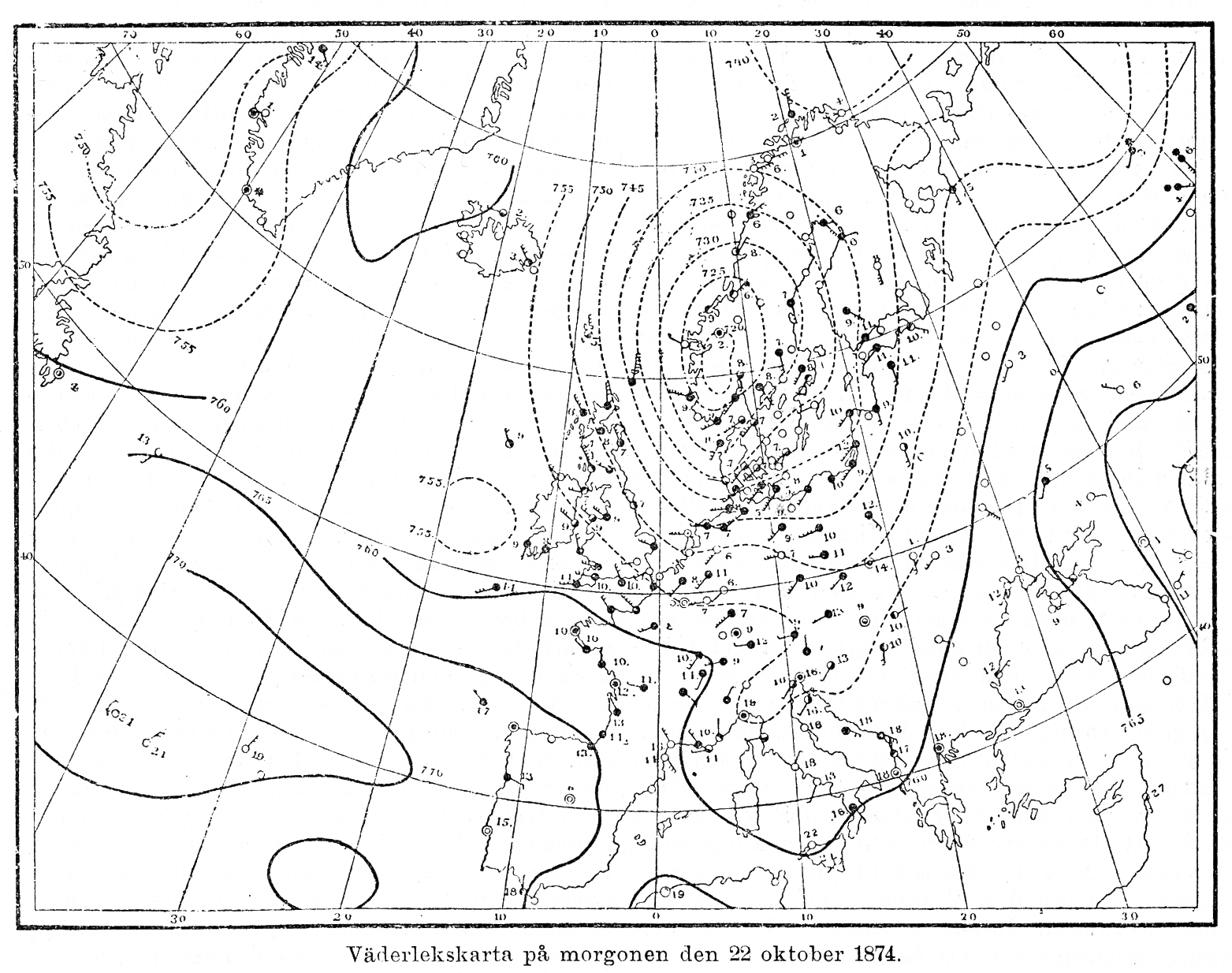 Synoptic chart (large scale weather map) of Europe and the North Atlantic in the morning of October 22, 1874.